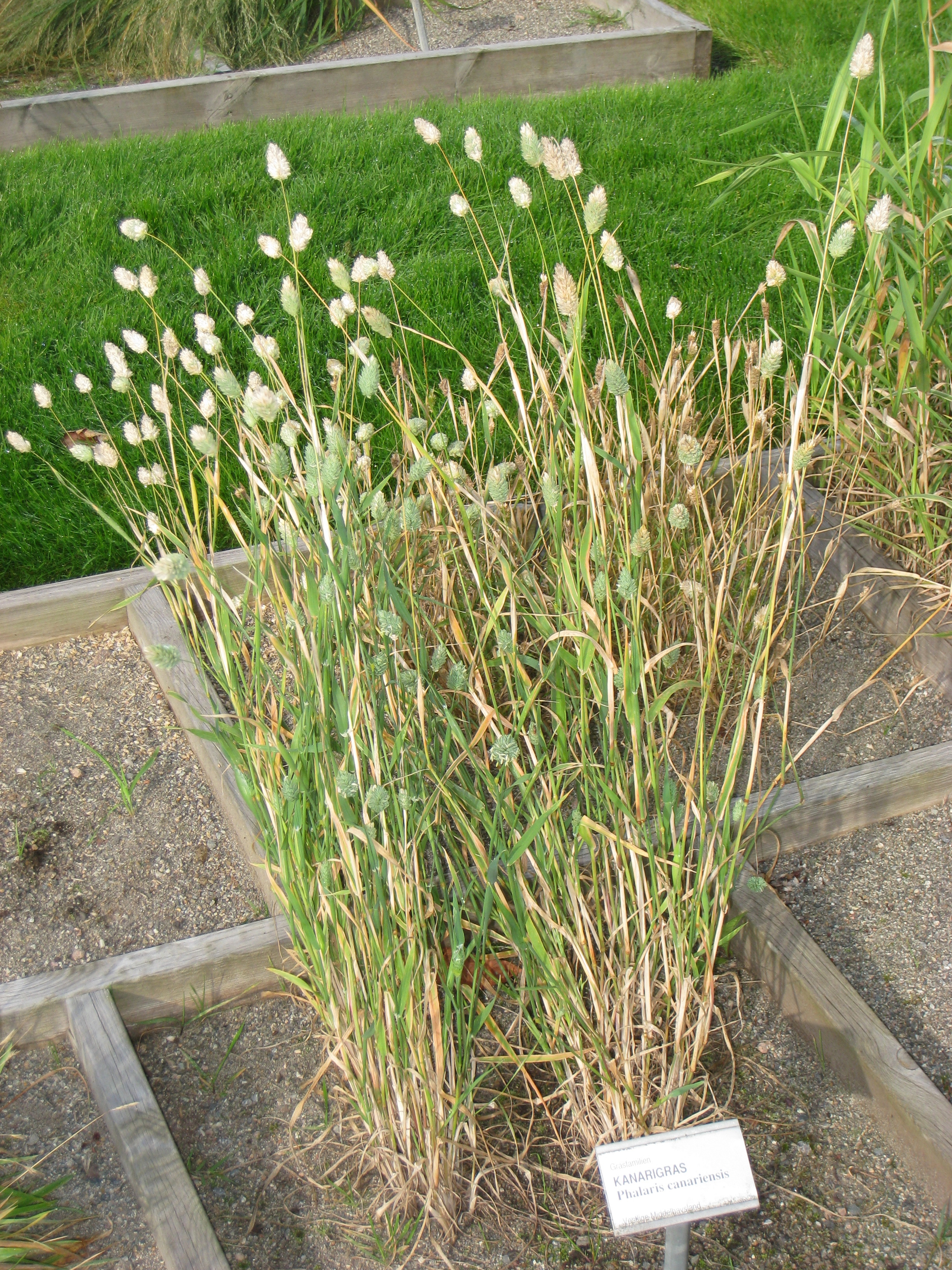 Phalaris canariensis - Oslo botanical garden, Oslo, Norway.